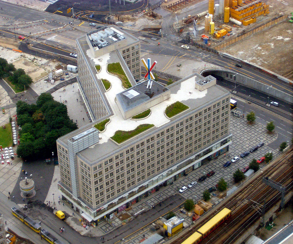 View from Berlin Television Tower to Alexanderhaus at Alexanderplatz No. 2